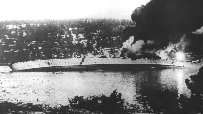 The German cruiser Blücher listing heavily to port after being hit by cannon fire and torpedoes from the Norwegian coastal fortress Oscarsborg. She sank a short time later.